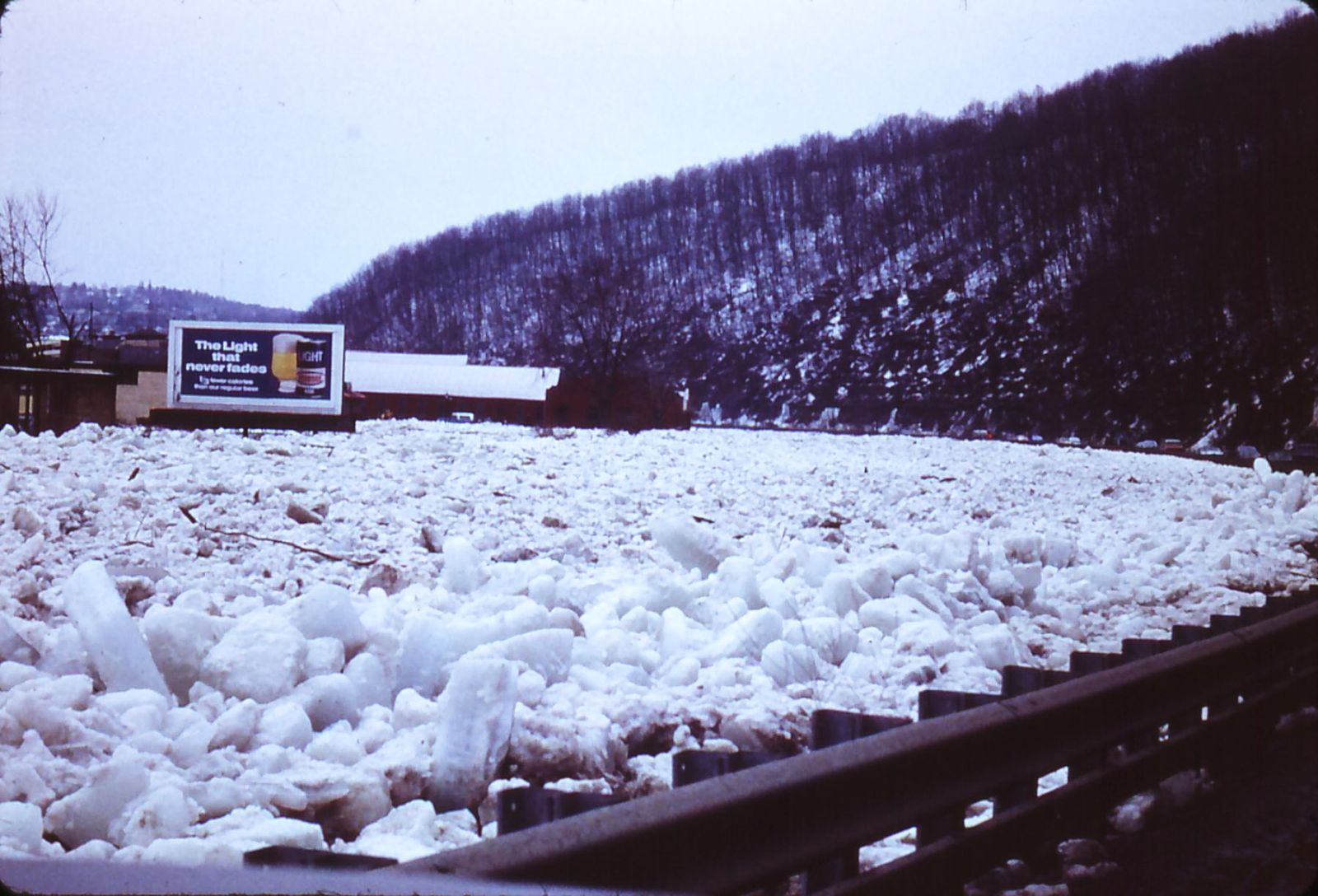 Ice jam on Oil Creek, just north of its confluence with the Allegheny River in Oil City, Pennsylvania. This photo was taken in the mid-late 1970's. Scanned from a photographic slide. Camera: Minolta SRT-201 SLR. This picture is actually from Route 8 across Oil Creek looking at downtown Oil City - the Allegheney River is approximately 1/8 mile from this point.Ice jam on Oil Creek, just north of its confluence with the Allegheny River in Oil City, Pennsylvania. This photo was taken in the mid-late 1970's. Scanned from a photographic slide. Camera: Minolta SRT-201 SLR. This picture is actually from Route 8 across Oil Creek looking at downtown Oil City - the Allegheney River is approximately 1/8 mile from this point.